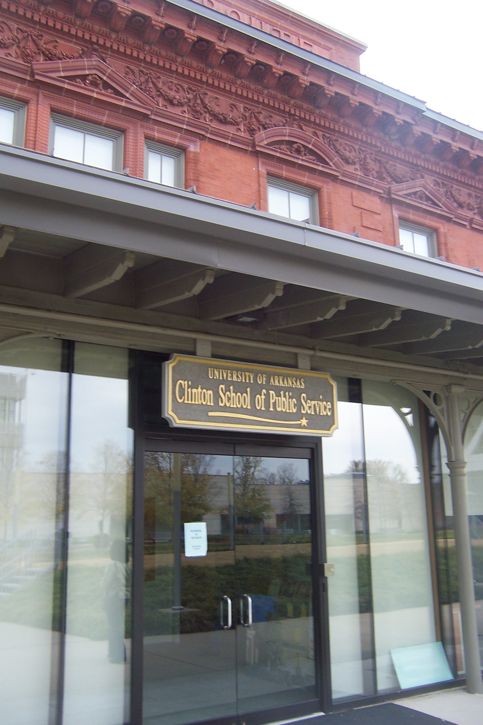 The Clinton School of Public Service building in Little Rock, Arkansas